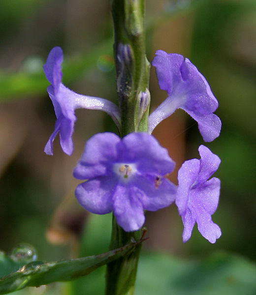 Porterweed Stachytarpheta jamaicensis in Talakona forest, in Chittoor District of Andhra Pradesh, India.